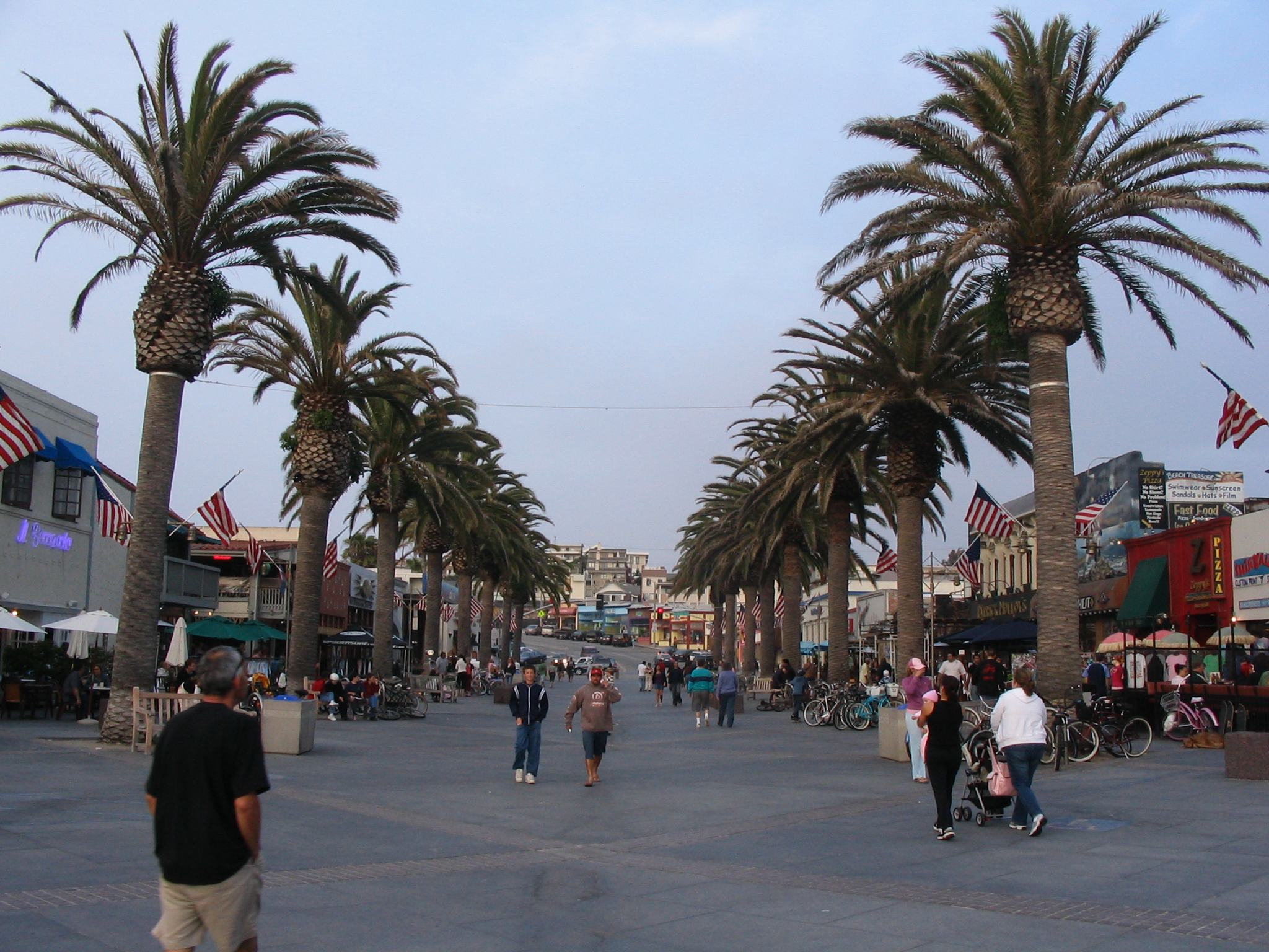 Hermosa Beach, LA, United-States.